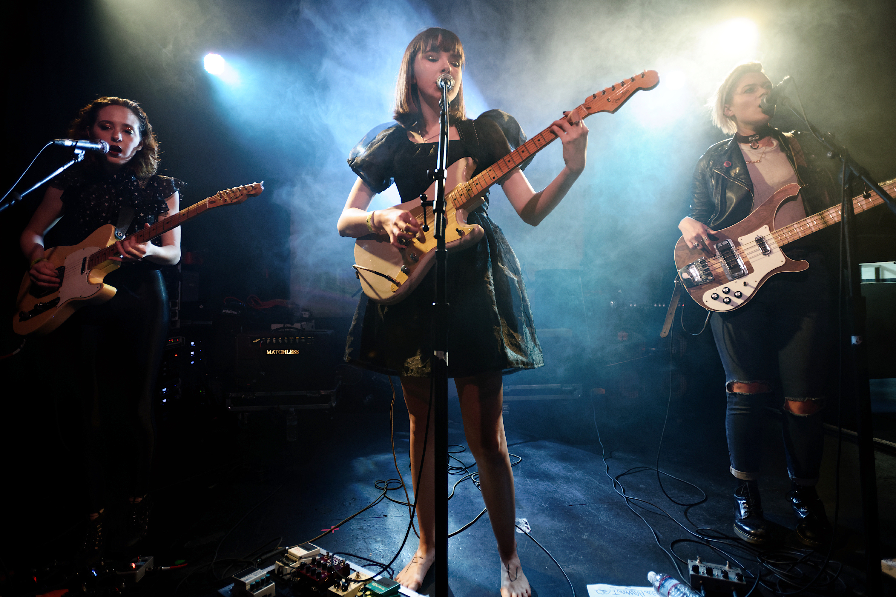 The Regrettes performing live at The Echo in Echo Park (Los Angeles) California on Saturday May 28th, 2016. Part of the "Play Like A Girl" showcase of up-and-coming local female-fronted rock bands, presented by Play Like a Girl L.A., GIRLSCHOOL, and KQOQ Locals Only. The Bulls, Kera and The Lesbians, and Night Talks also performed.